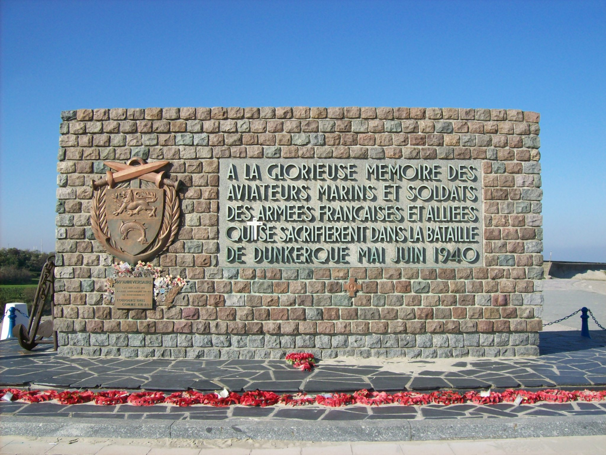 Memorial to the Battle of Dunkerque